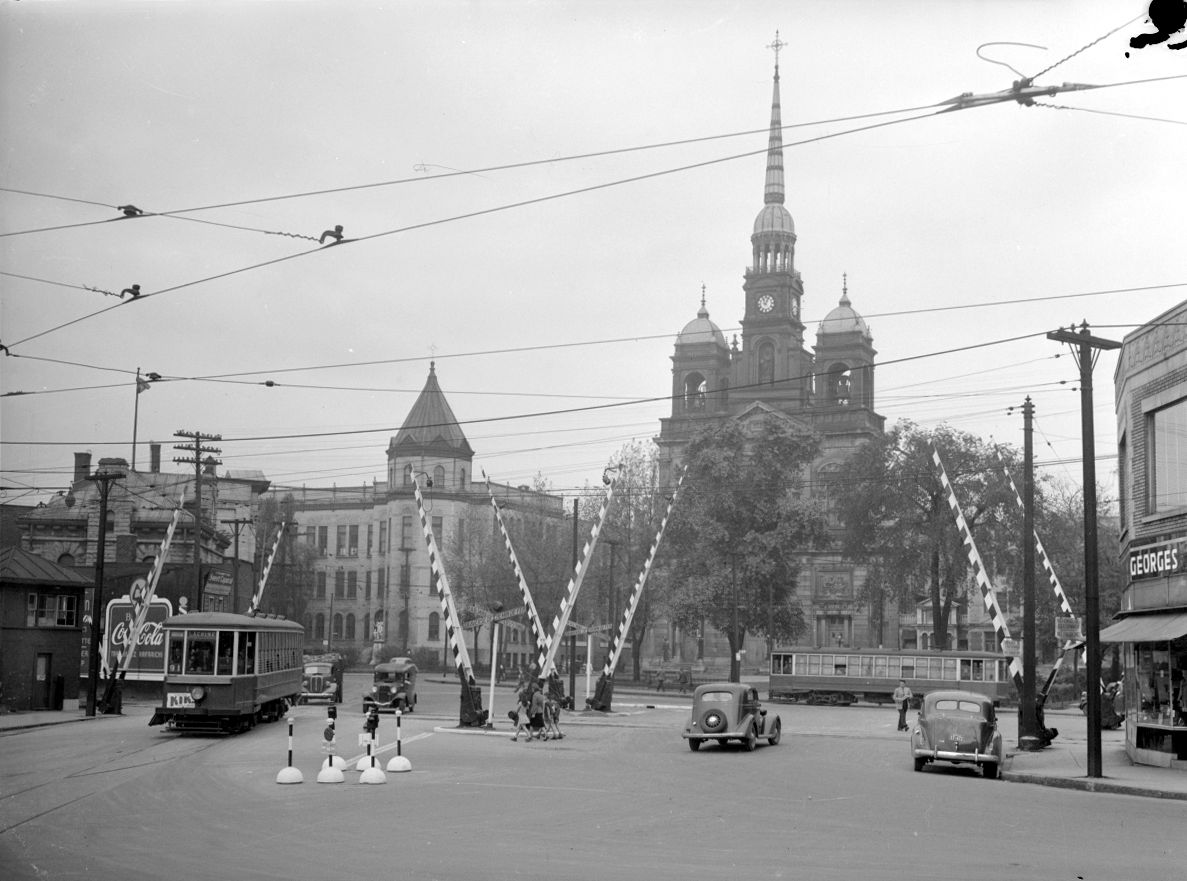 For documentary purposes the original description provided by BAnQ has been retained. Additional descriptive text may be added by Wikimedians with the wiki description = parameter, but please do not modify the other fields.